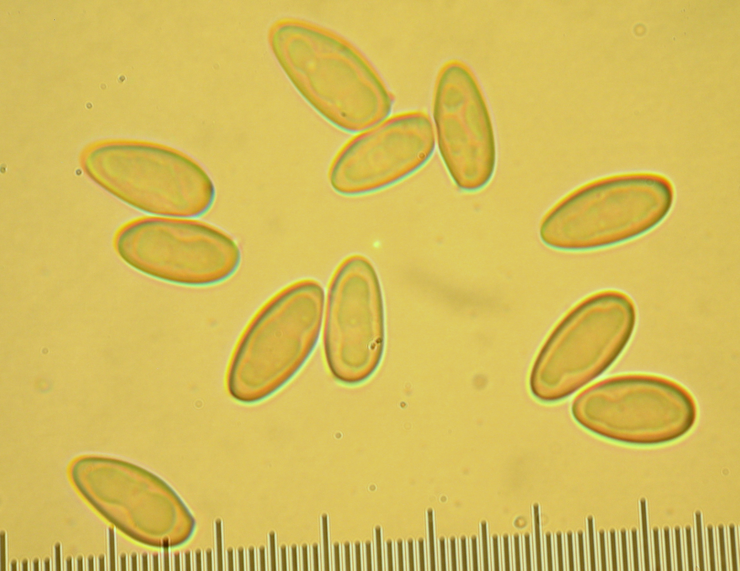 Spores of the bolete mushroom Harrya chrompapes. From specimens collected in Big Thicket, Polk Co., Texas, USA.